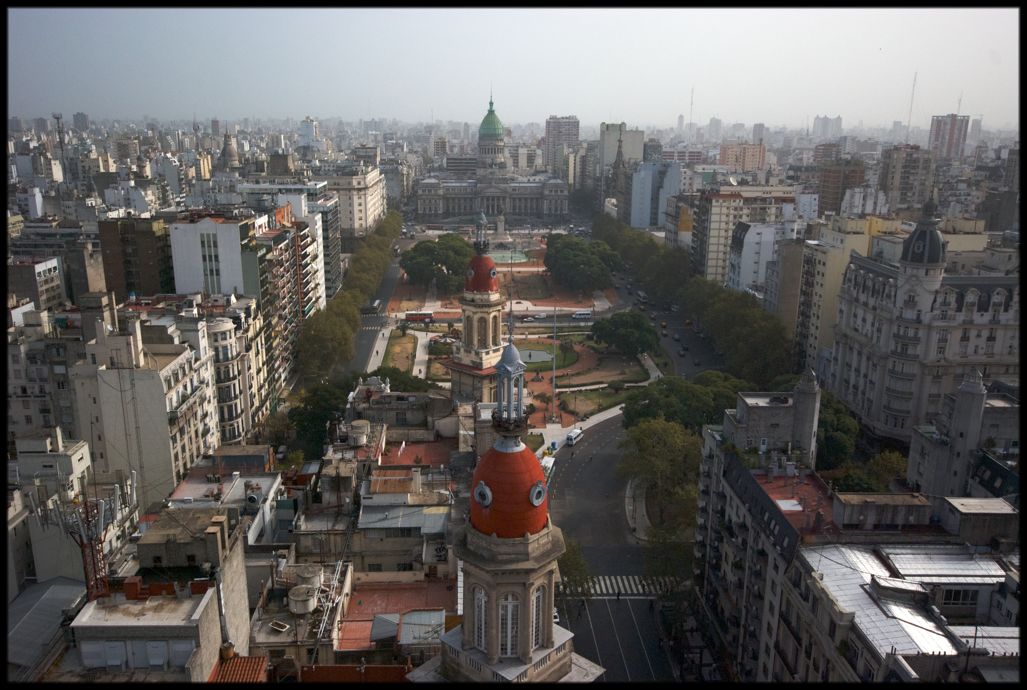 Congressional Plaza and the Argentine Congress from the Palacio Barolo building. Buenos Aires, Argentina.